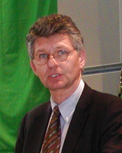 Dr. Gerd Schwandner, Head-Mayor of the City of Oldenburg (Oldbg), Lower Saxony, Germany